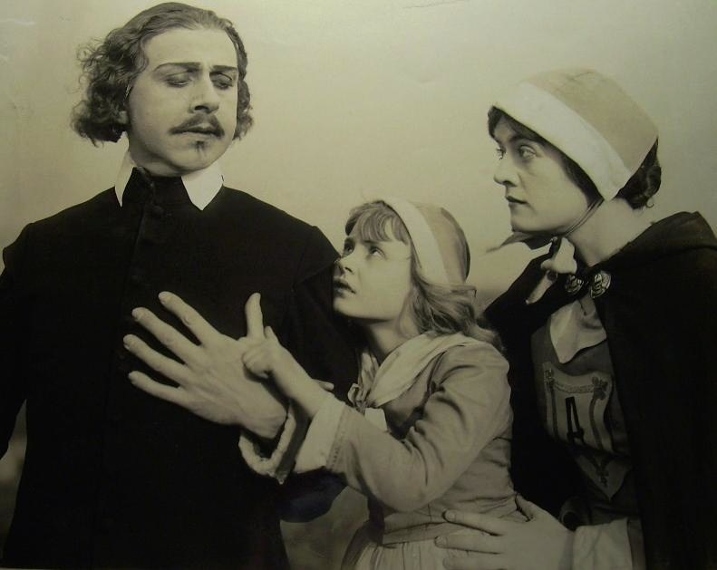 Left to right: Stuart Holmes, Kittens Reichert, and Mary Martin (silent film actress) in The Scarlet Letter (1917) - publicity still (cropped) - original image damaged, modified (see source)